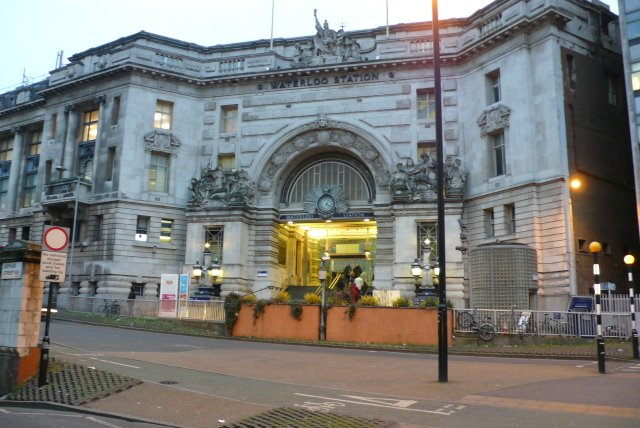 Waterloo, London The main part of Waterloo Station is in TQ3179. The main entrance seen here is right at the NW corner of the square so that the steps and approachroads to the main entrance shown in the foreground of this image are in TQ3080 and the road and part of the station to the left is in TQ3181.